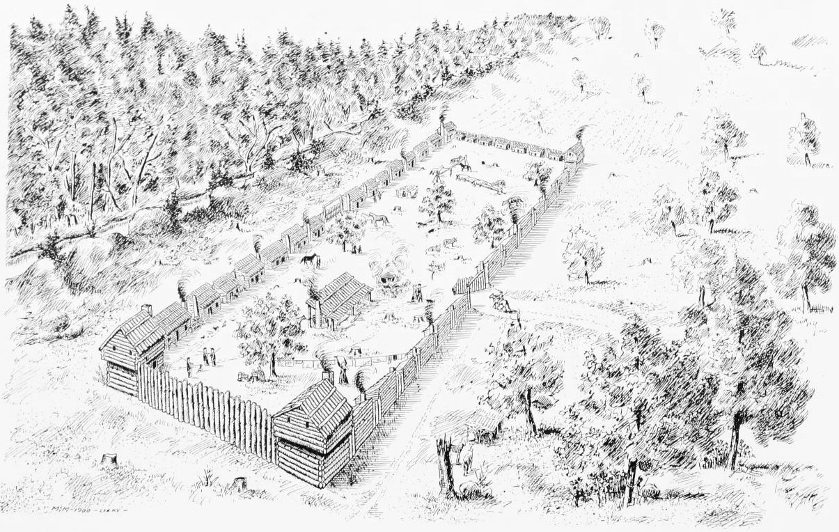 Fort Boonesborough. Just before Celebrated Siege of September, 1778. From "Boonesborough; its founding, pioneer struggles, Indian experiences, Transylvania days, and revolutionary annals" by George Washington Ranck (1901).